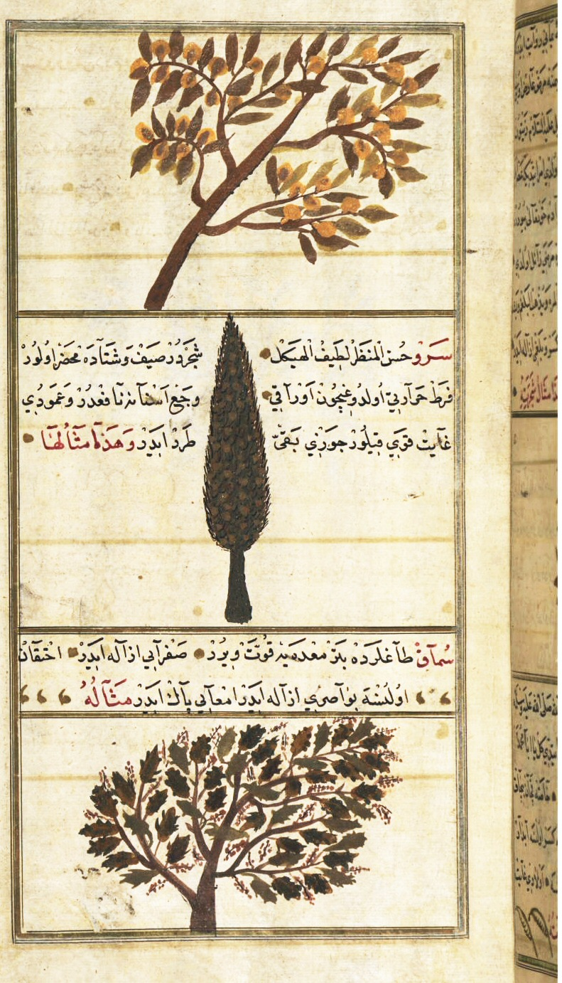 A Quince Tree, a Cypress Tree, and a Sumac Tree in Zakariya al-Qazwini's Wonders of Creation